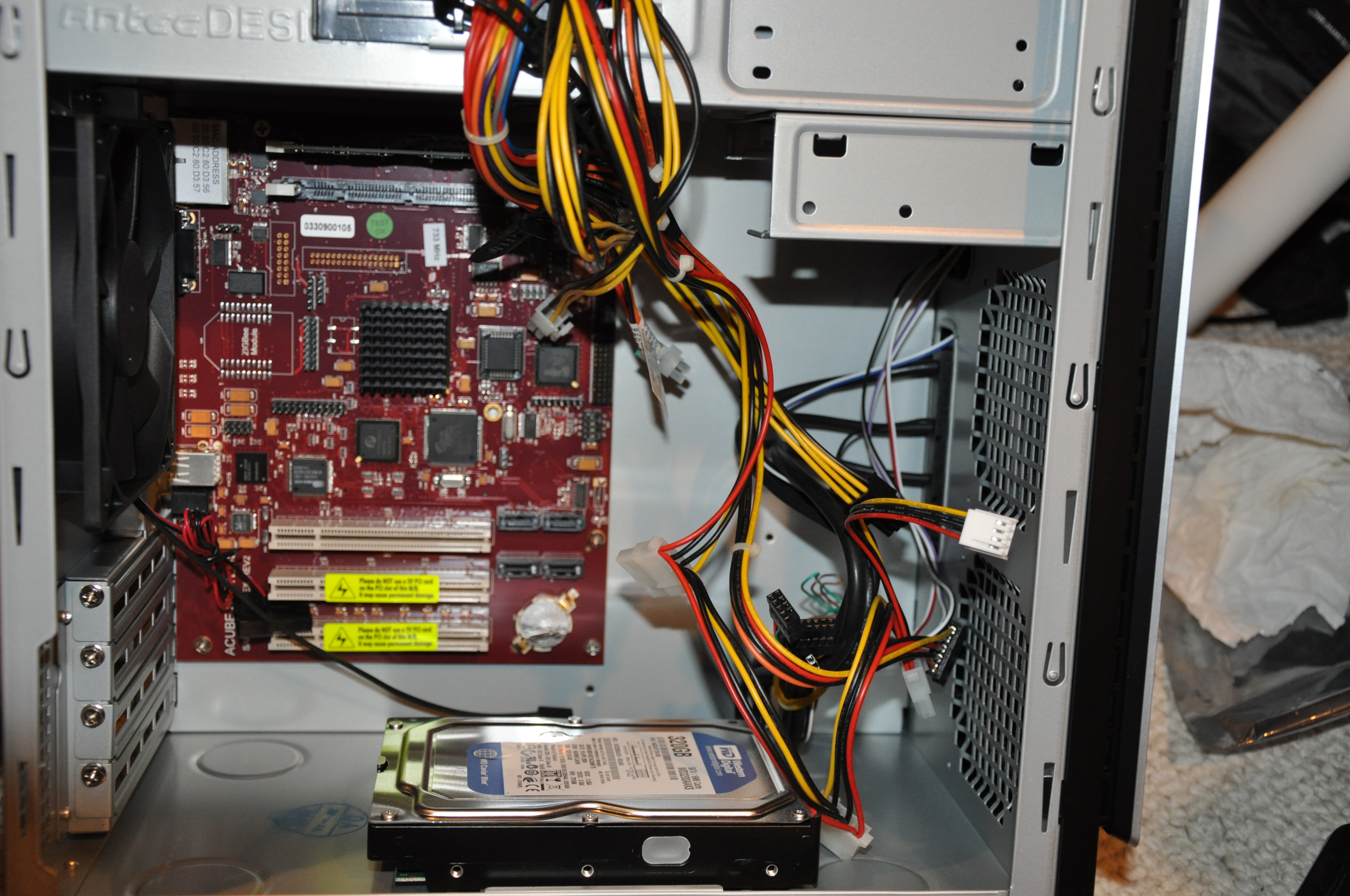 Sam440ep-Flex board mounted in case